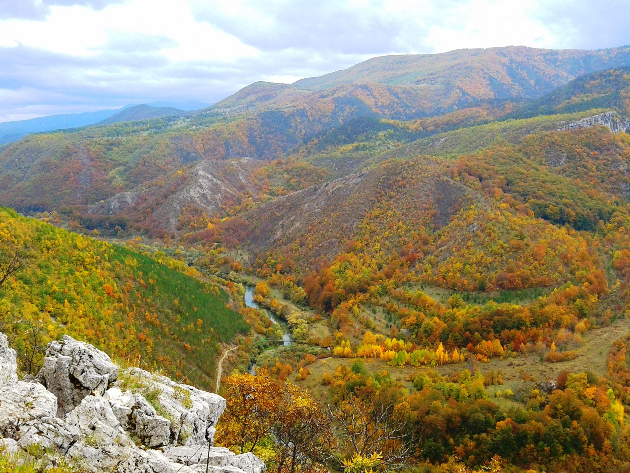 VIDIKOVAC KANJON